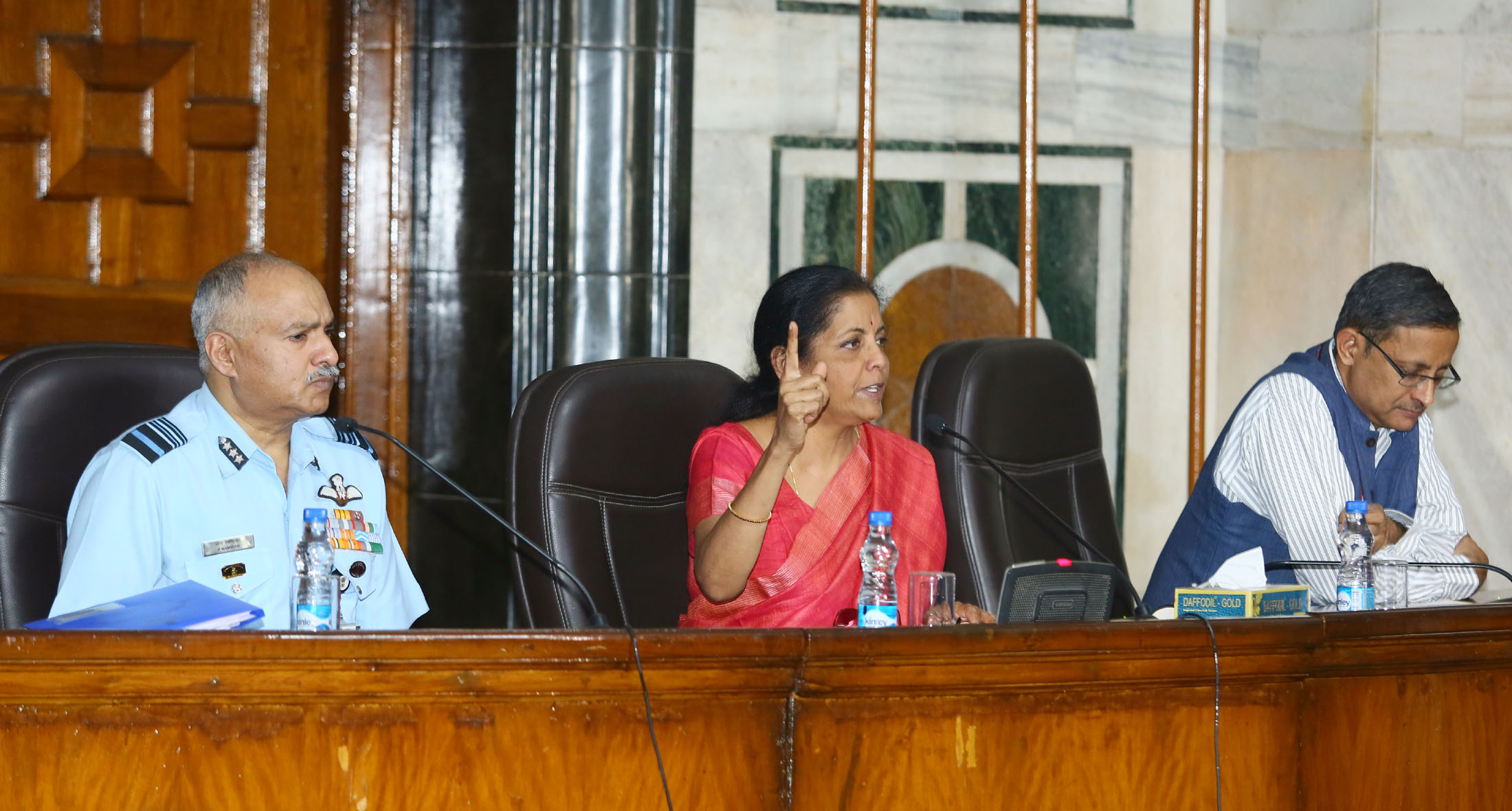 The Union Minister for Defence, Smt. Nirmala Sitharaman addressing a press conference, in New Delhi on November 17, 2017. The Defence Secretary, Shri Sanjay Mitra and the Deputy Chief of Air Staff, Air Marshal R. Nambiar are also seen.